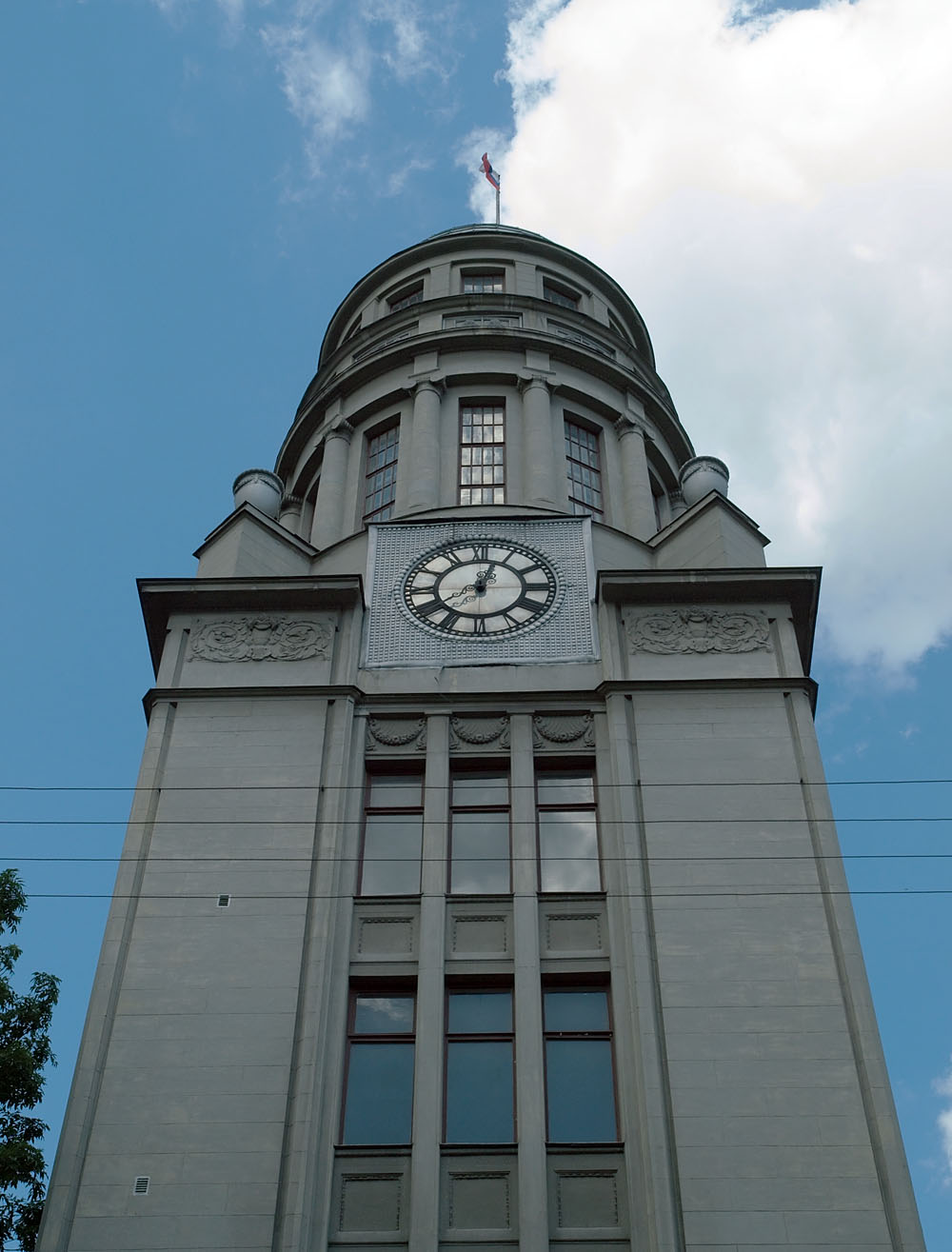 Northern Insurance Bulding, Moscow, 1909-1912. Lead architects: Ivan Rerberg (d. 1932), Marian Peretyatkovich (d. 1916).